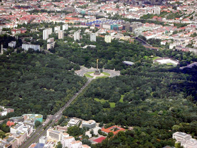 Berlin-Tiergarten park with the 'victory column' in the middle, followed by Südliches Hansaviertel, Spree and Moabit